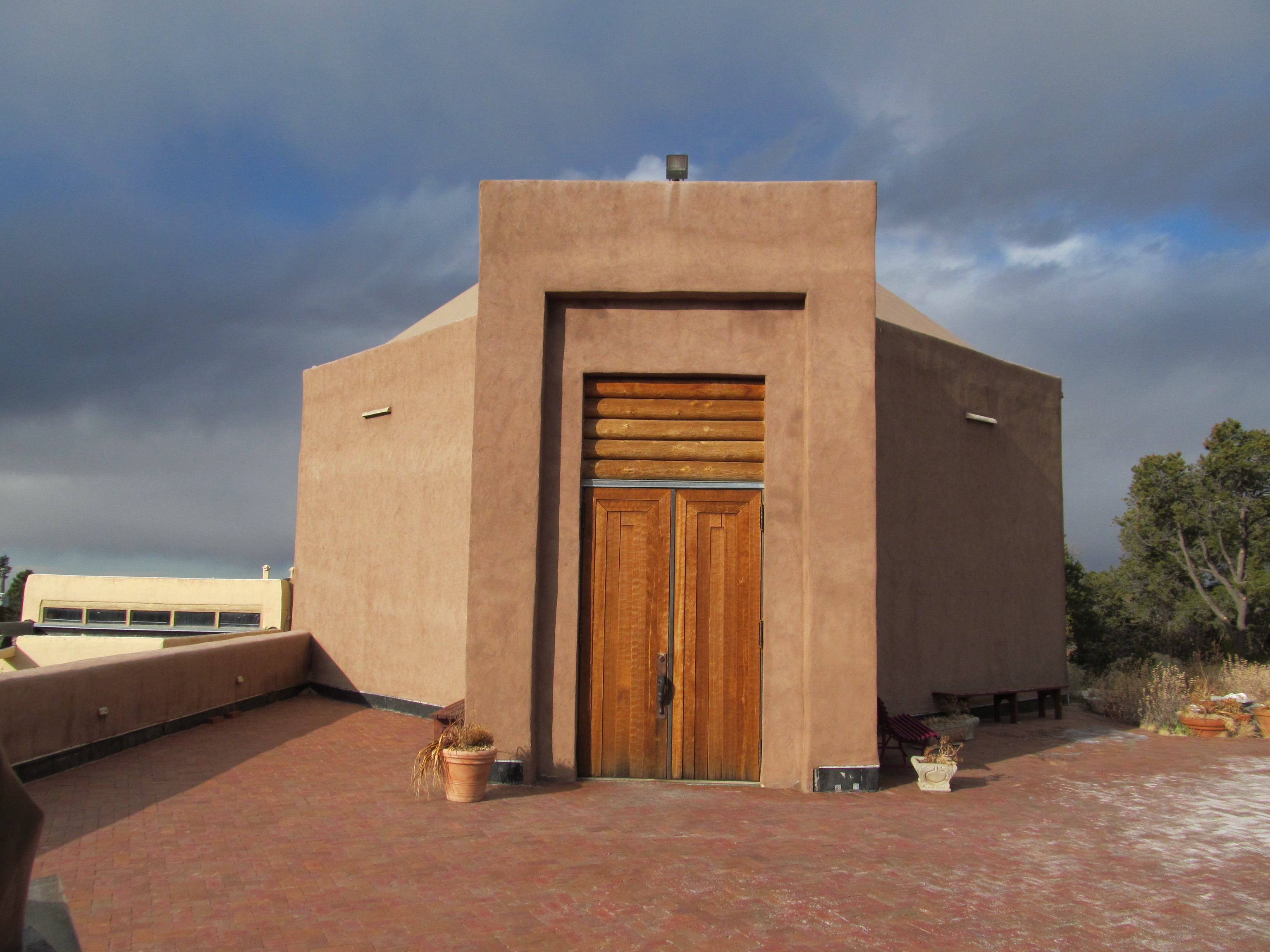 Wheelwright Museum of the American Indian, Santa Fe New Mexico